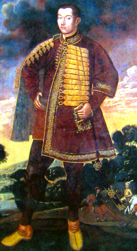 Paul II. Batthyány (1639-1674)